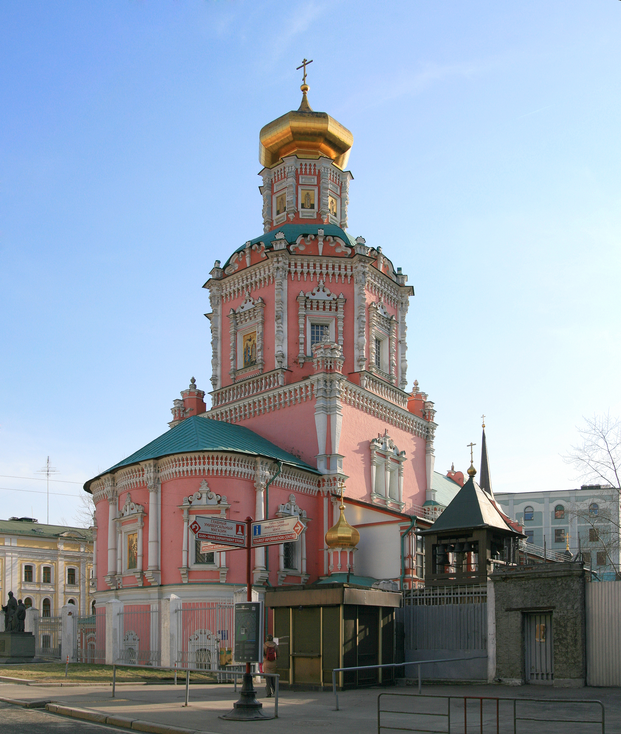 Bogoyavlensky Monastery, Moscow